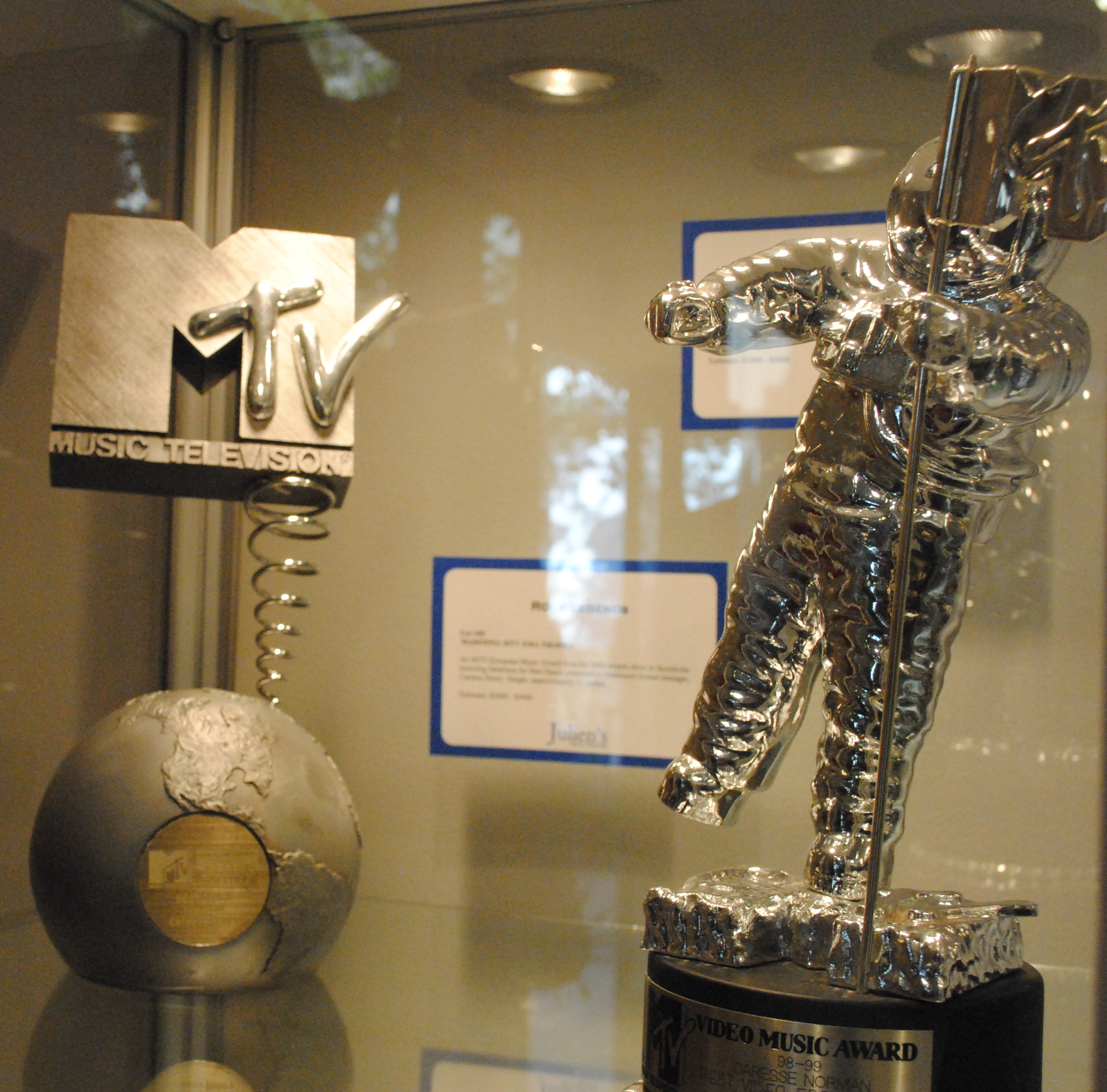 MTV Moonman, Julien's Auctions Preview 2011-03-08